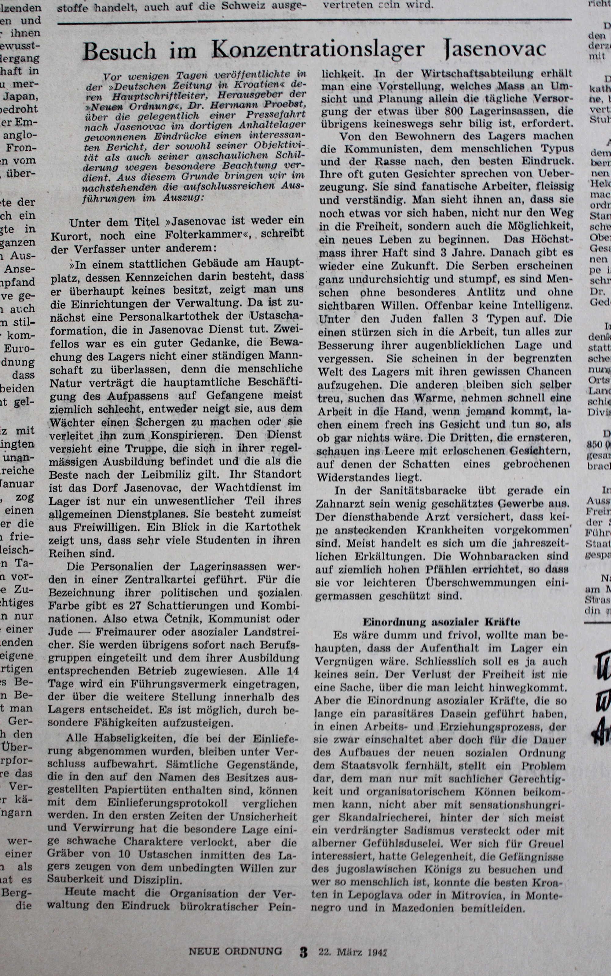 Newspaper article from 1942. Zagreb-based Nazi weekly "Neue Ordnung"